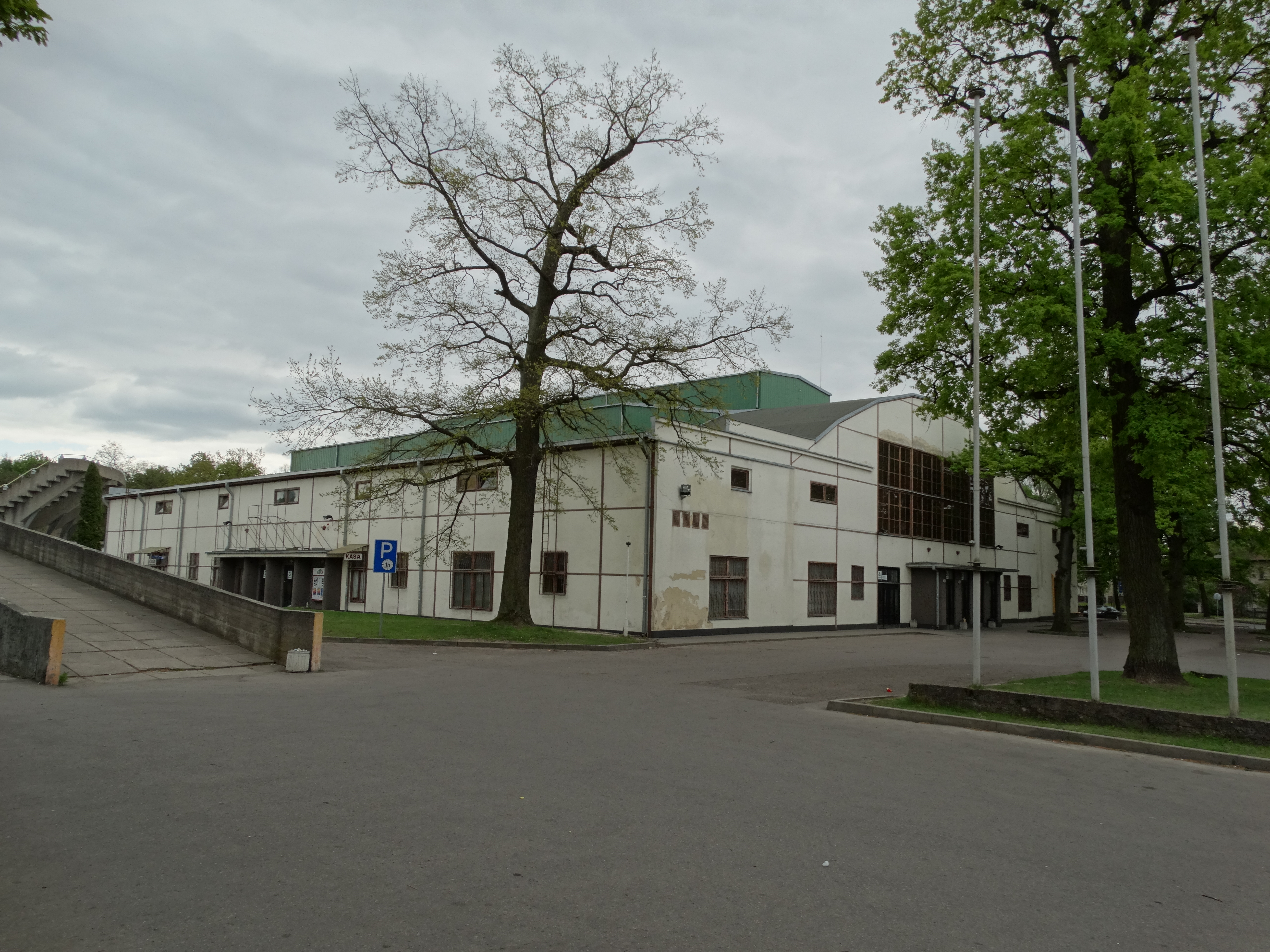 Sports Hall, Kaunas, Lithuania